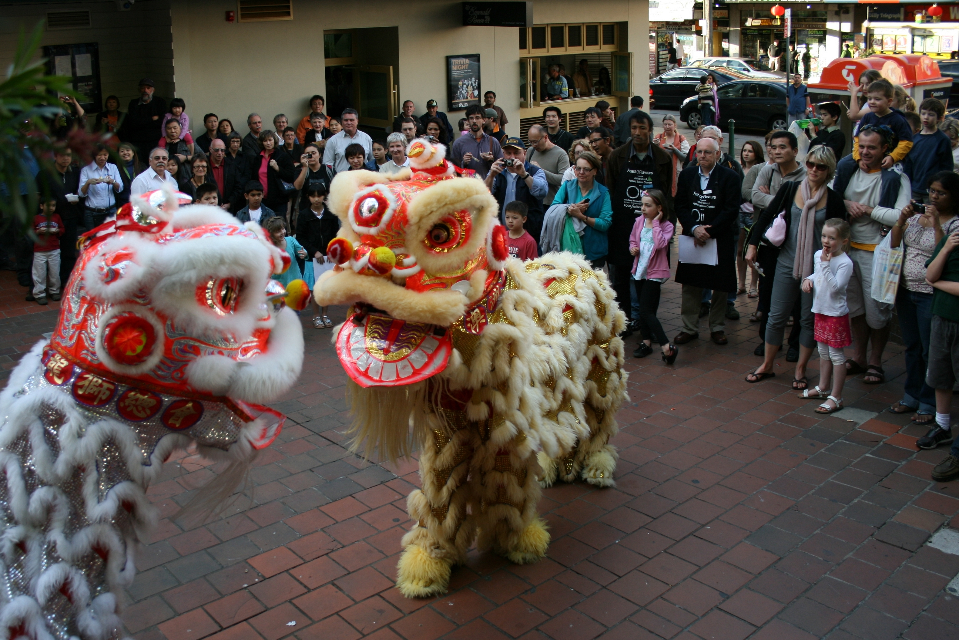 Chinese Lion Dancing outside Ashfield Mall during Ashfield's Big Yum Cha, part of the Sydney International Food Festival. Ashfield is a suburb of Sydney in the state of New South Wales (NSW), Australia.